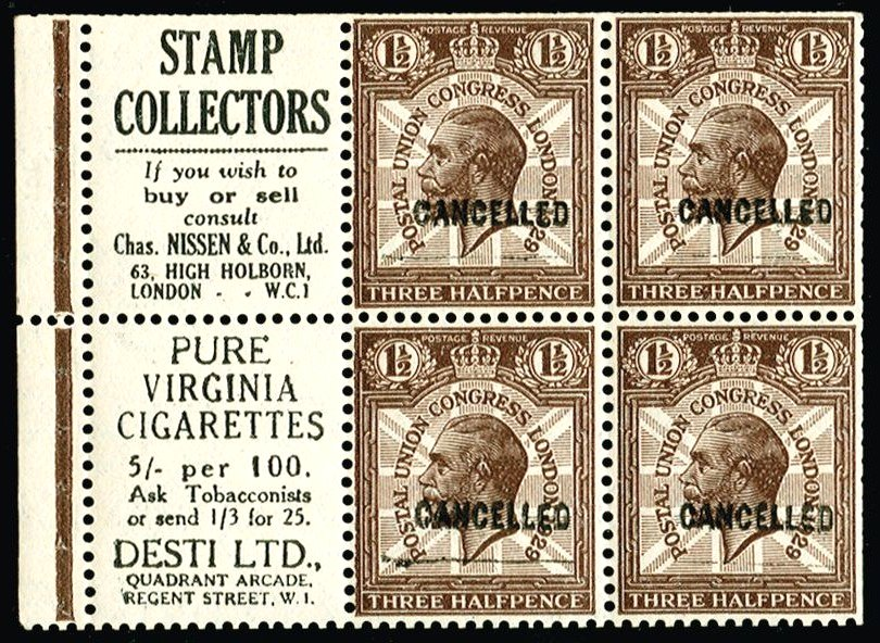 1929 1½d Postal Union Congress booklet pane of four with two advertisement labels at left, overprinted "CANCELLED" type 33. Spec. NComB4at(3).